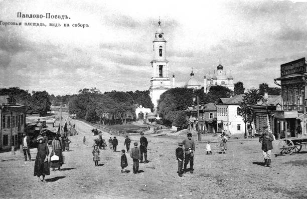 Market Square in Pavlovsky Posad. Postcard, 1900s.